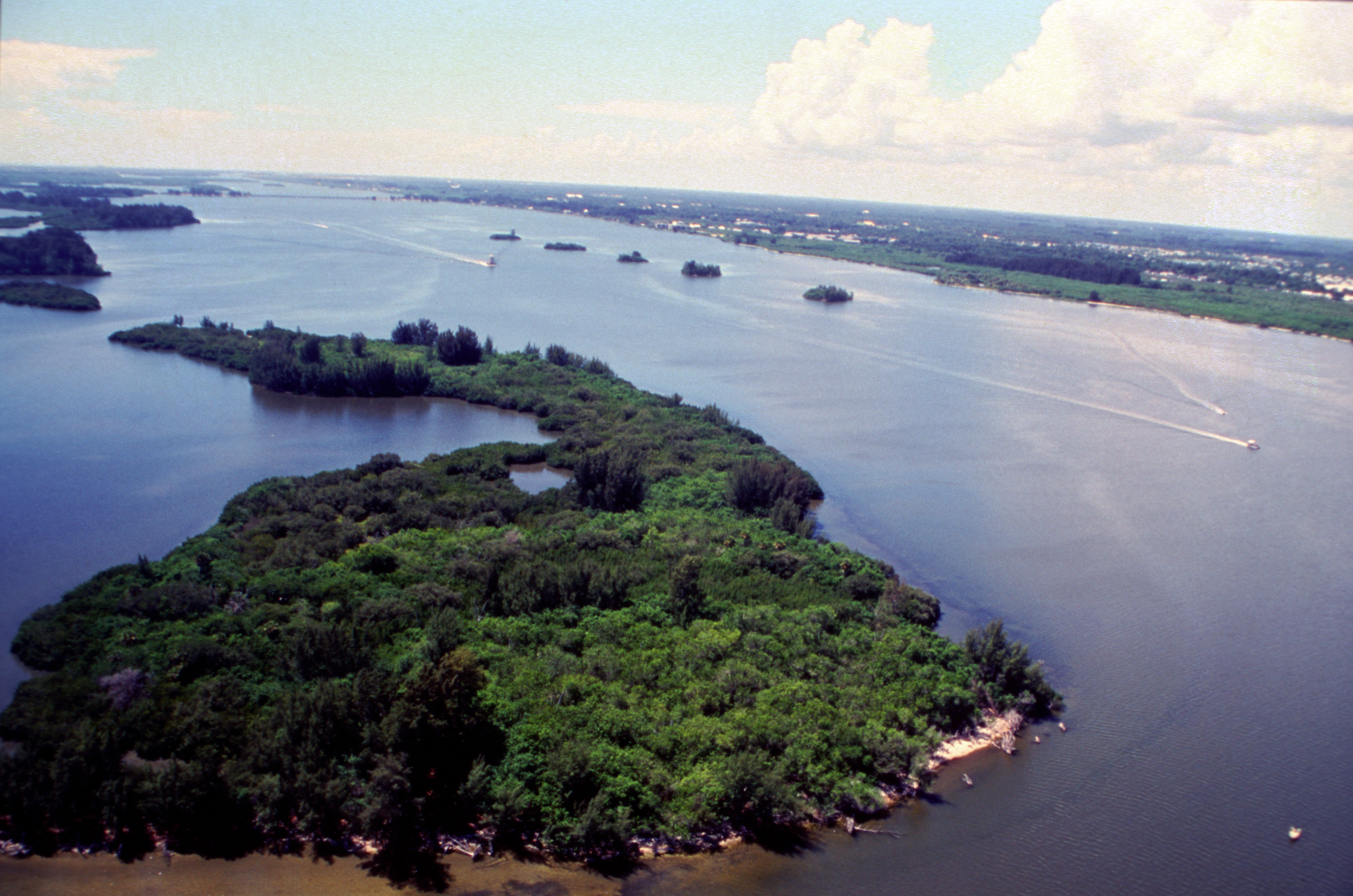 This aerial shows a view of the diverse biosystem and beauty of the Indian River Lagoon, Florida, USA